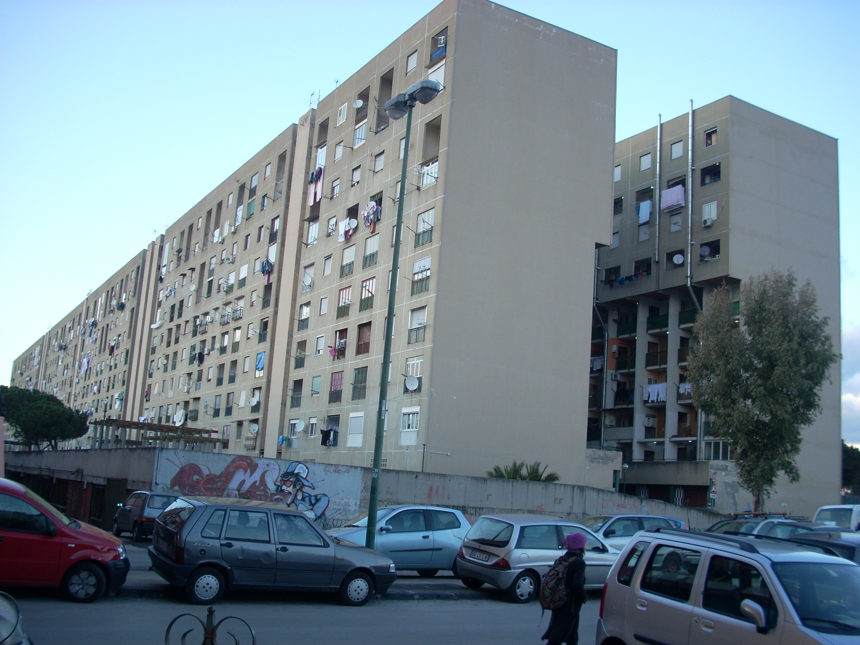 apartment house in Naples, called Bronx